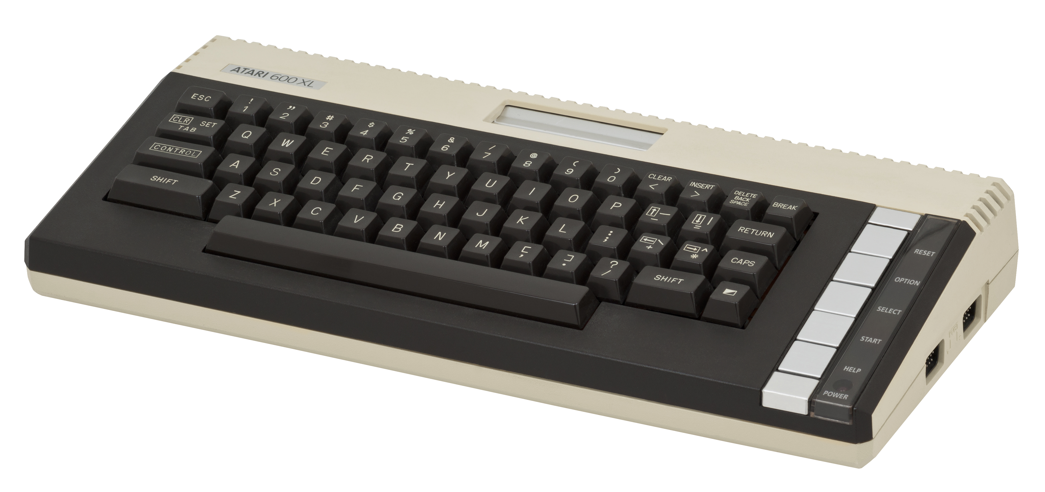 The Atari 600XL, an 8-bit computer released in 1983 by Atari.